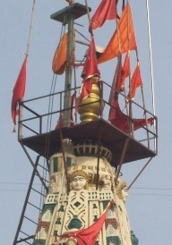 kalasha mandir